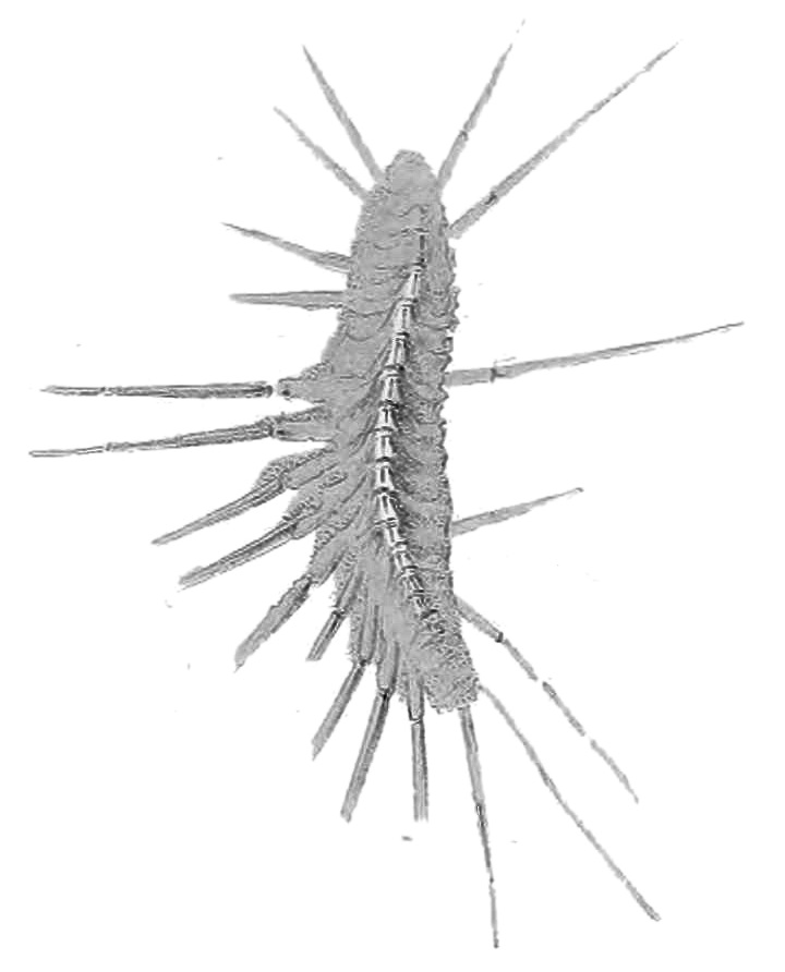 Latzelia primordialis illustration Length of body, 22.5 mm. ; breadth in middle, 4.5 mm. ; length of coxae in middle of body, 2.3 mm.; of femora in same, 6.5 mm.; breadth of same coxae, 0.9 mm.; breadth of same femora at base, 0.7 mm. ; at tip, 0.5 mm. Mazon Creek. Mr. R. D. Lacoe, No. 1837ab.